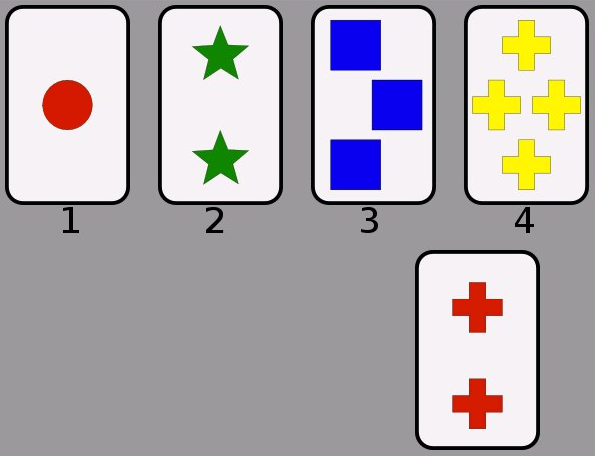 Screenshot of PEBL software running Wisconsin Card Sorting Test test from its test battery.